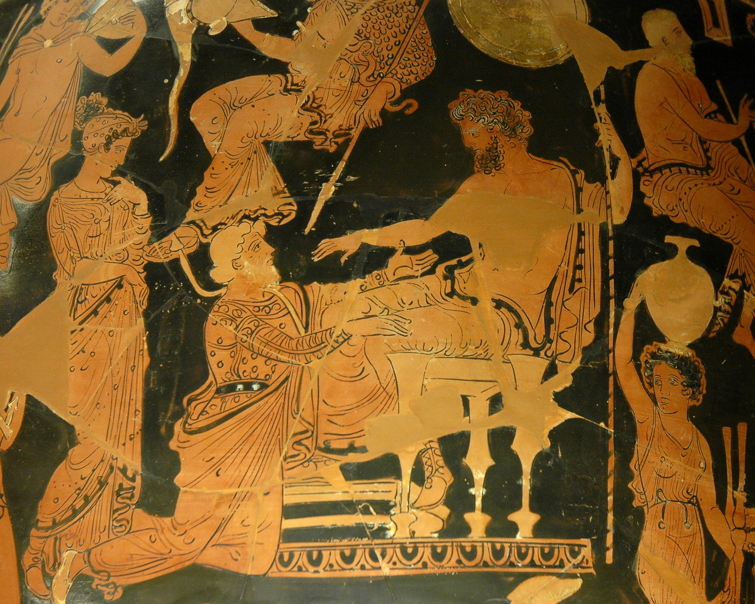 Chryses attempting to ransom his daughter Chryseis from Agamemnon. Side A of an Apulian red-figure volute-crater, ca. 360 BC–350 BC, found in Taranto.